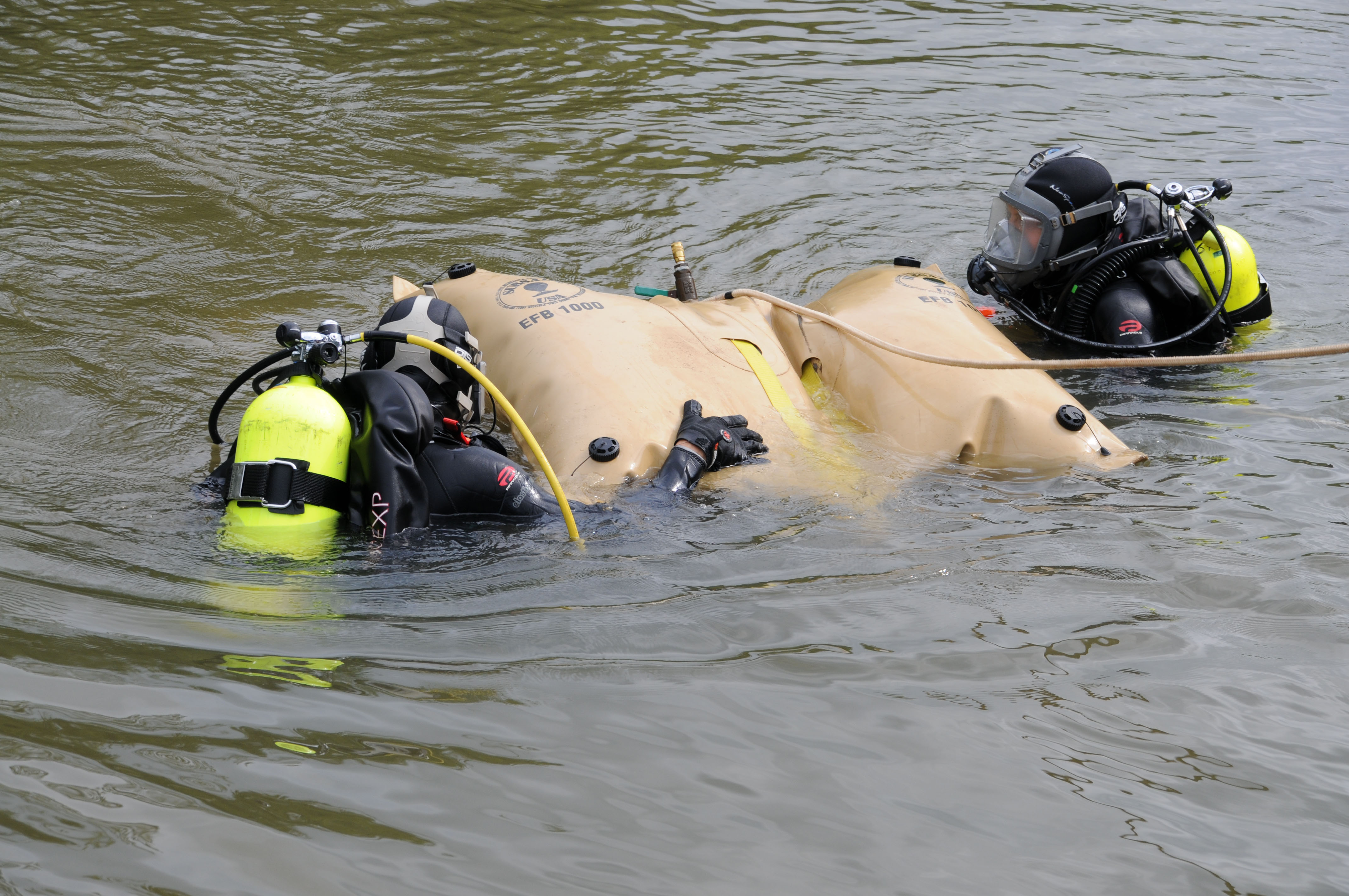 UPPER MARLBORO, Md. (Aug. 4, 2010) Underwater archeologists George Schwarz, left, and Alexis Catsambis position a lift bag to readjust shoring during the excavation of the U.S. sloop-of-war Scorpion. The ship was scuttled in the Patuxent River during the War of 1812 to avoid capture by British forces. (U.S. Navy photo by Mass Communication Specialist 2nd Class Kenneth G. Takada/Released)